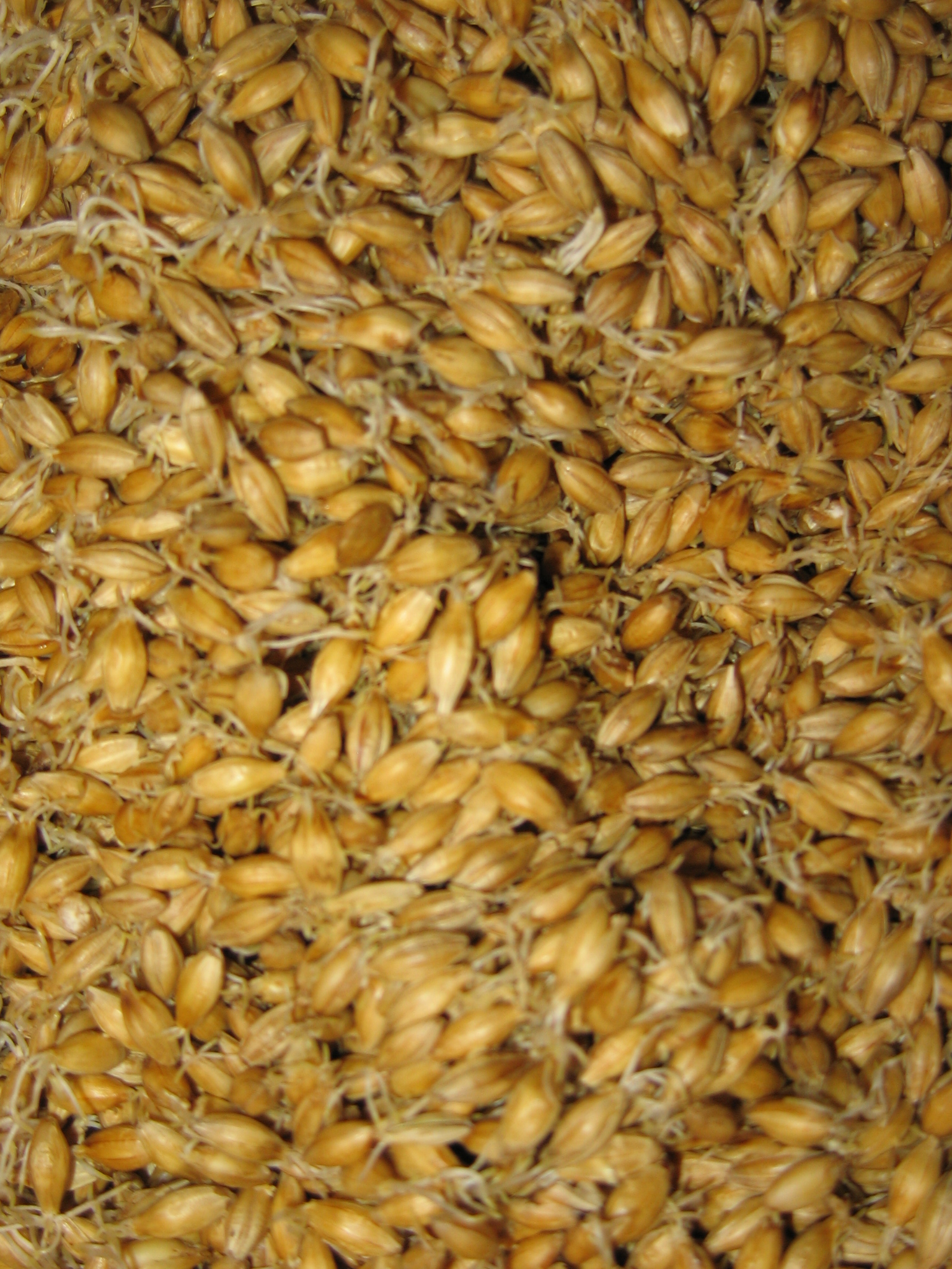 Malt, used to make Scotch Malt Whisky